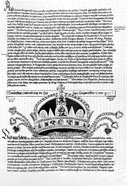 The Holy Crown of Hungary in the Fugger Chronicle